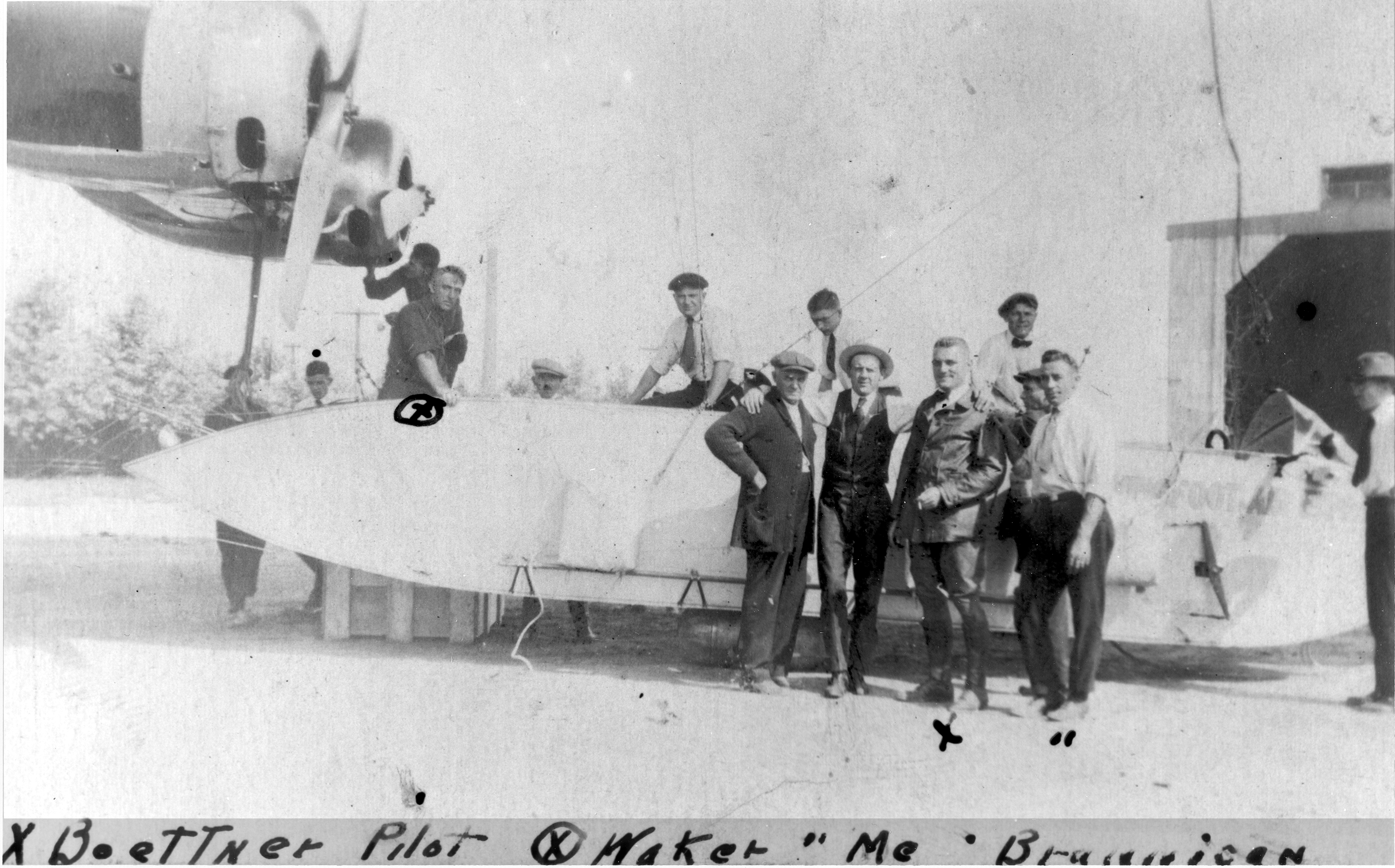 Crew of the Wingfoot Air Express, 21 July, 1919. Grant Park Airfield